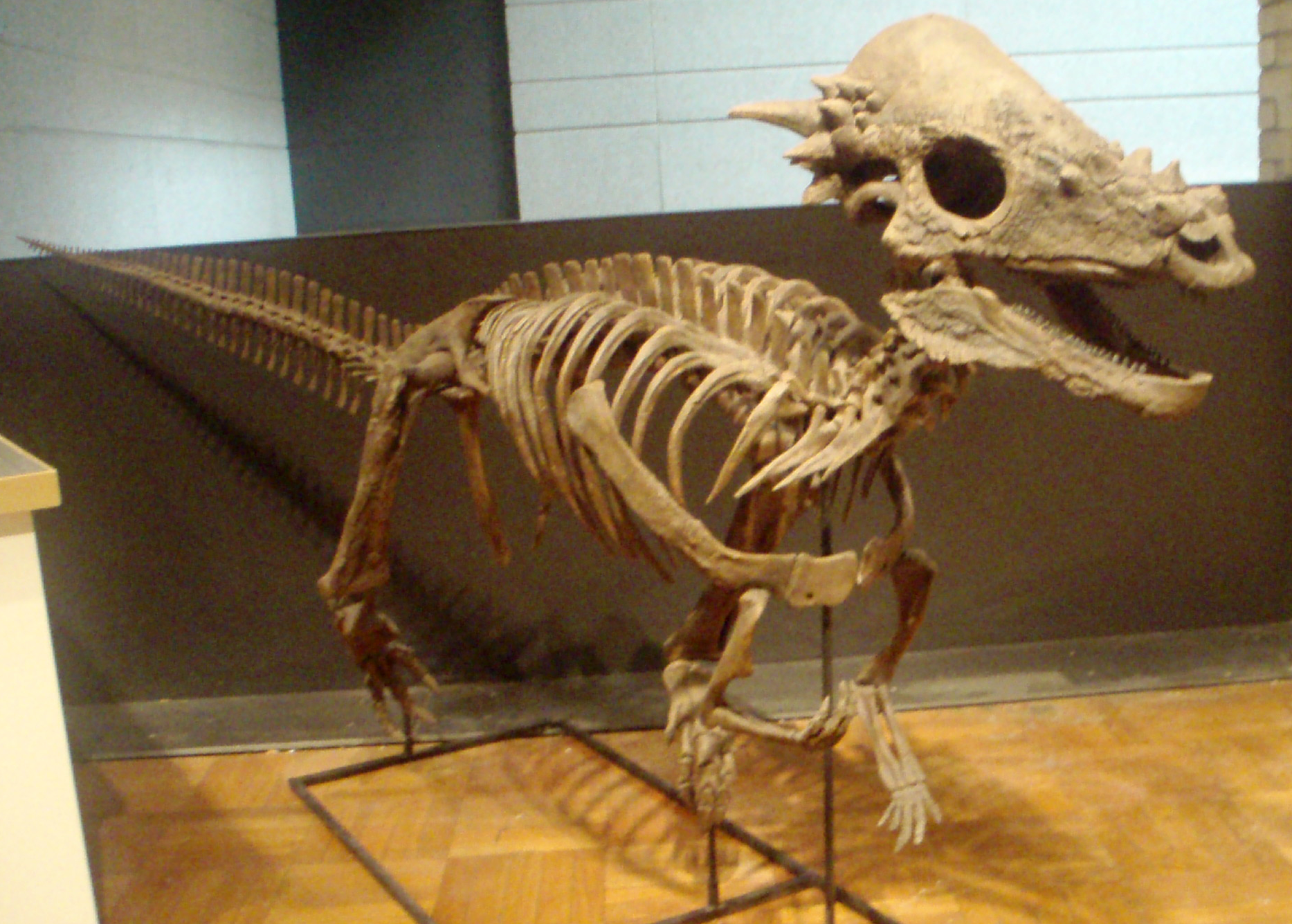 A Pachycephalosaurus skeleton, on display at the Royal Ontario Museum, Toronto.